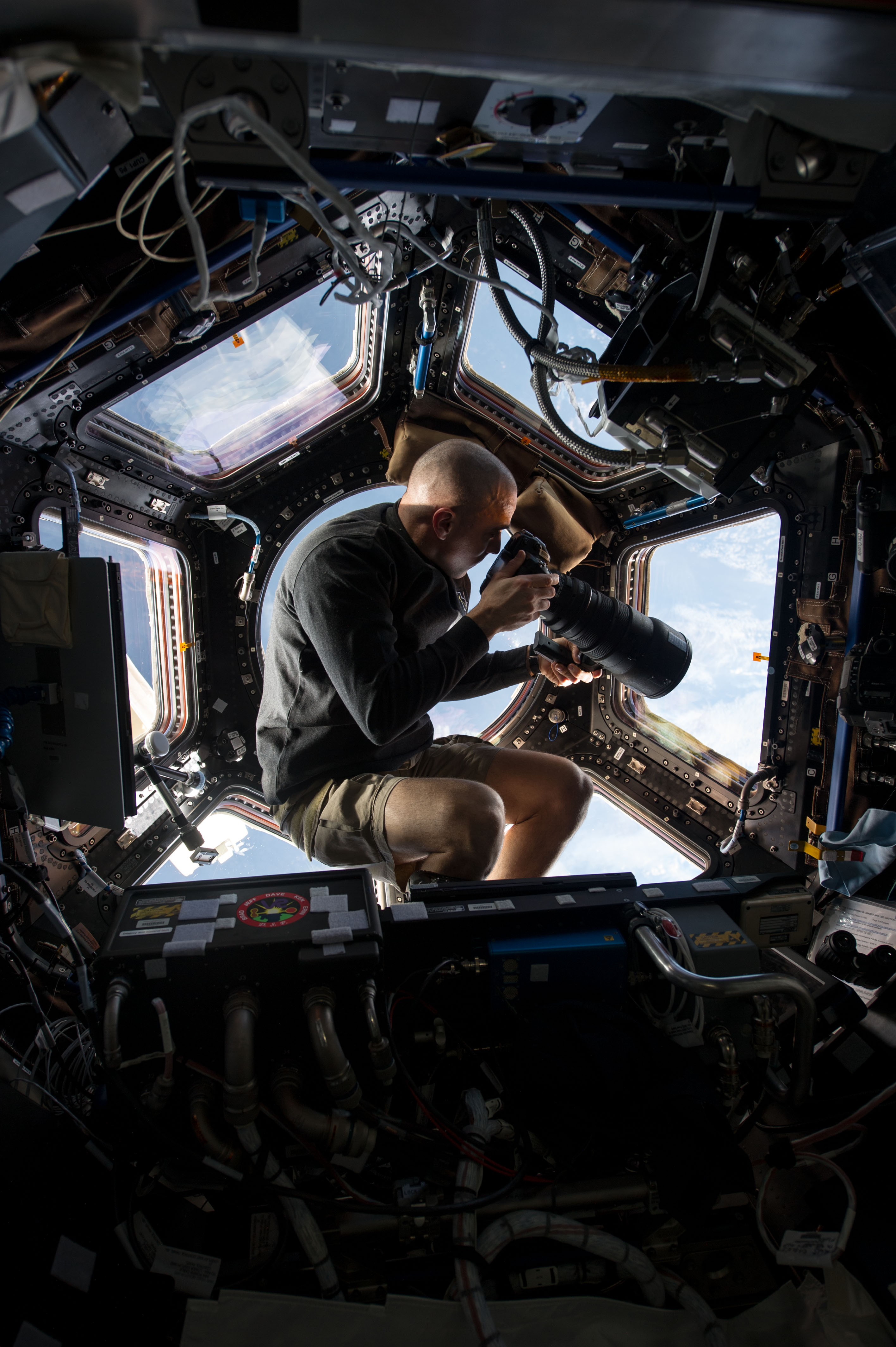 Inside the Cupola, NASA astronaut Chris Cassidy, an Expedition 36 flight engineer, uses a 400mm lens on a digital still camera to photograph a target of opportunity on Earth some 250 miles below him and the International Space Station. Cassidy has been aboard the orbital outpost since late March and will continue his stay into September. NASA Goddard Space Flight Center enables NASA’s mission through four scientific endeavors: Earth Science, Heliophysics, Solar System Exploration, and Astrophysics. Goddard plays a leading role in NASA’s accomplishments by contributing compelling scientific knowledge to advance the Agency’s mission.